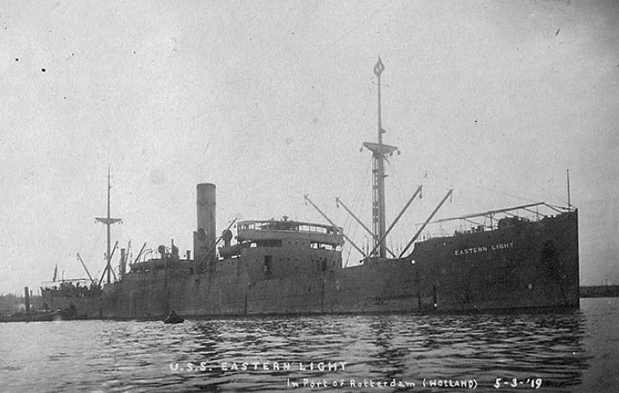 The United States Navy cargo ship at Rotterdam in the Netherlands. (The U.S. Navy History and Heritage Command and both misidentify the 5-3-1919 date on the photo as 3 May 1919, but Eastern Light was in out of commission in the United States by then; the 5-3-1919 date on the photo actually is for 5 March 1919, the date she arrived at Rotterdam while in commission.)